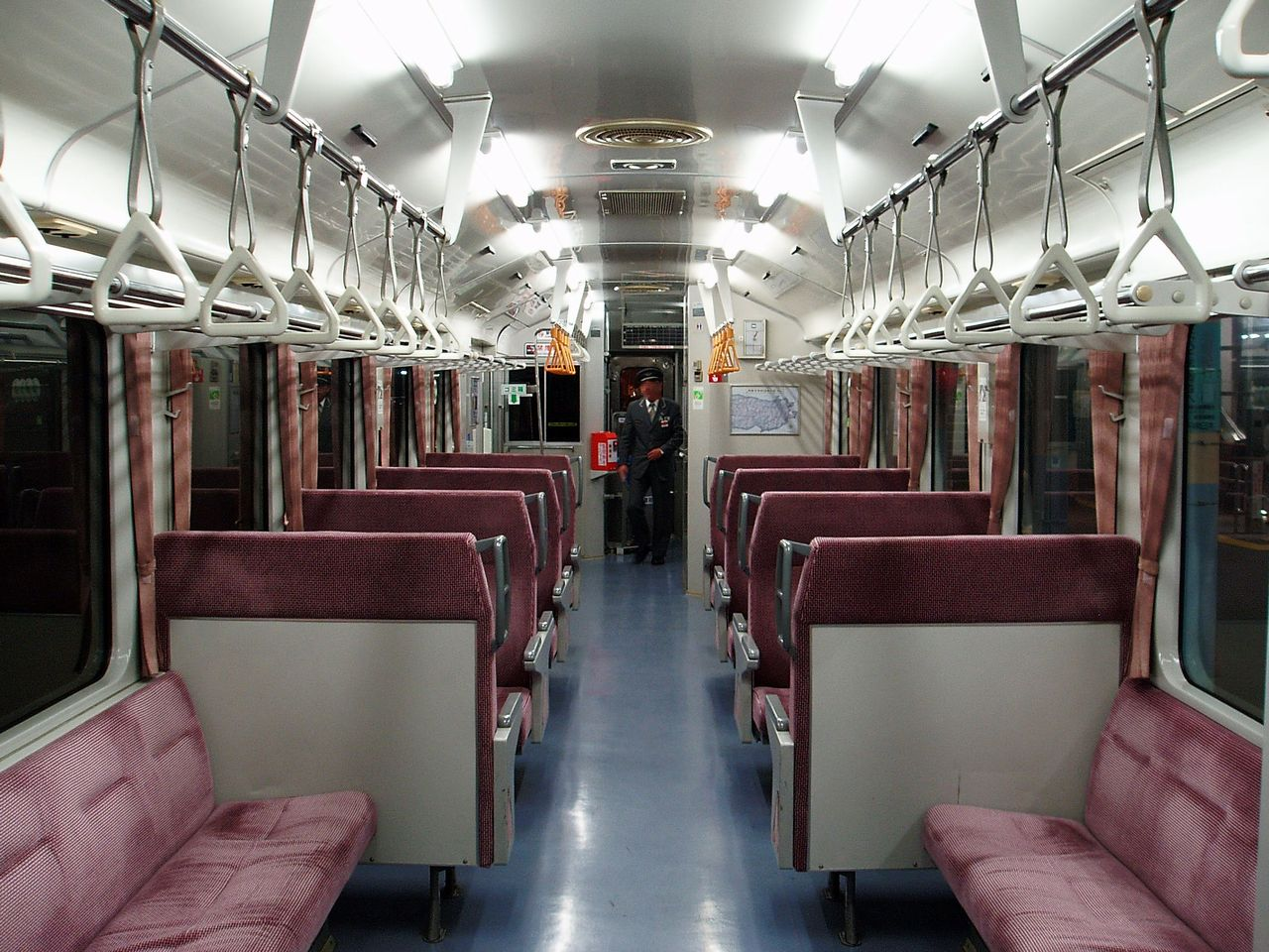 Interior of JR East KiHa 100-200 series DMU car KiHa 100-204